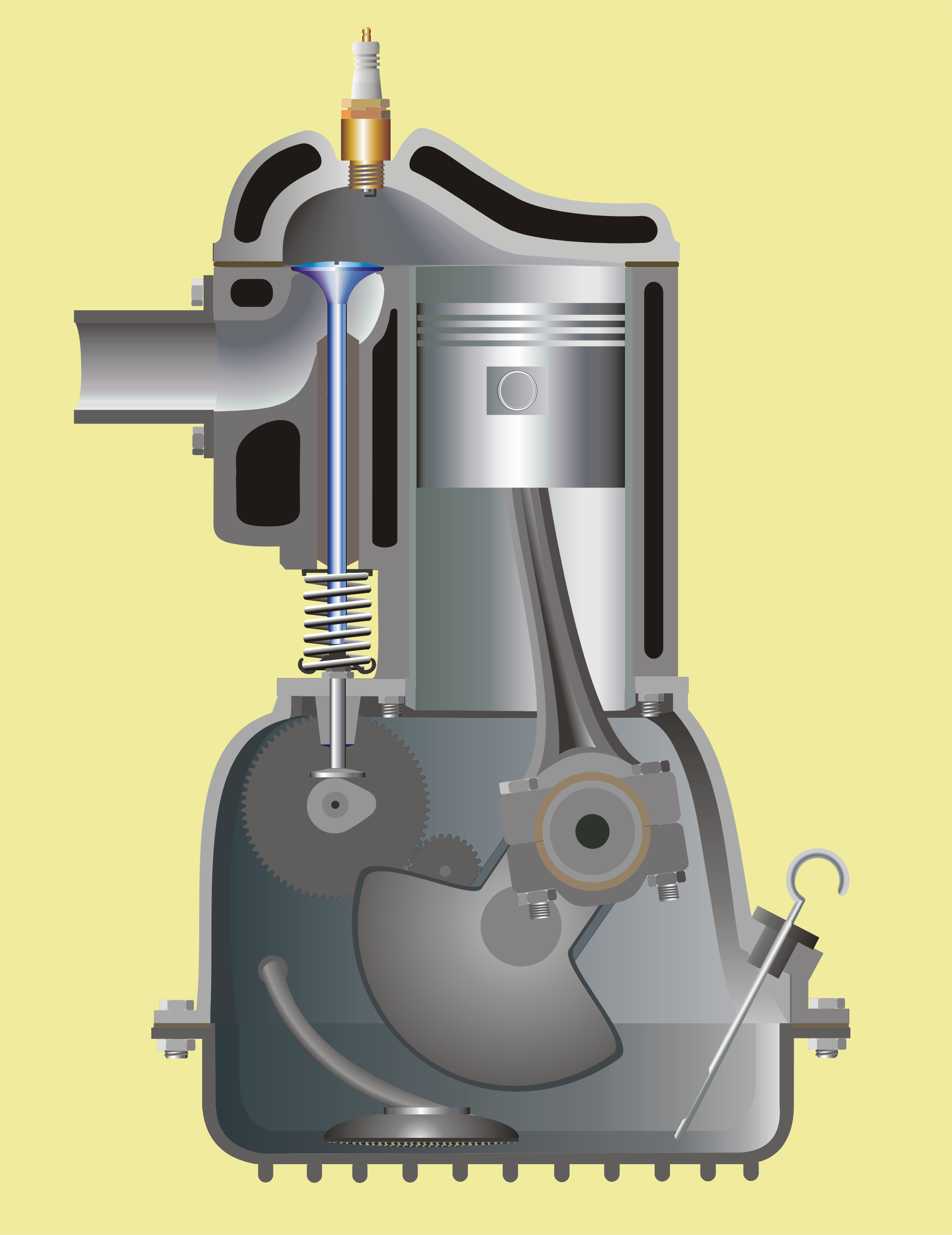 Diagram of four-stroke side-valve engine with Ricardo's turbulent cylinder head.